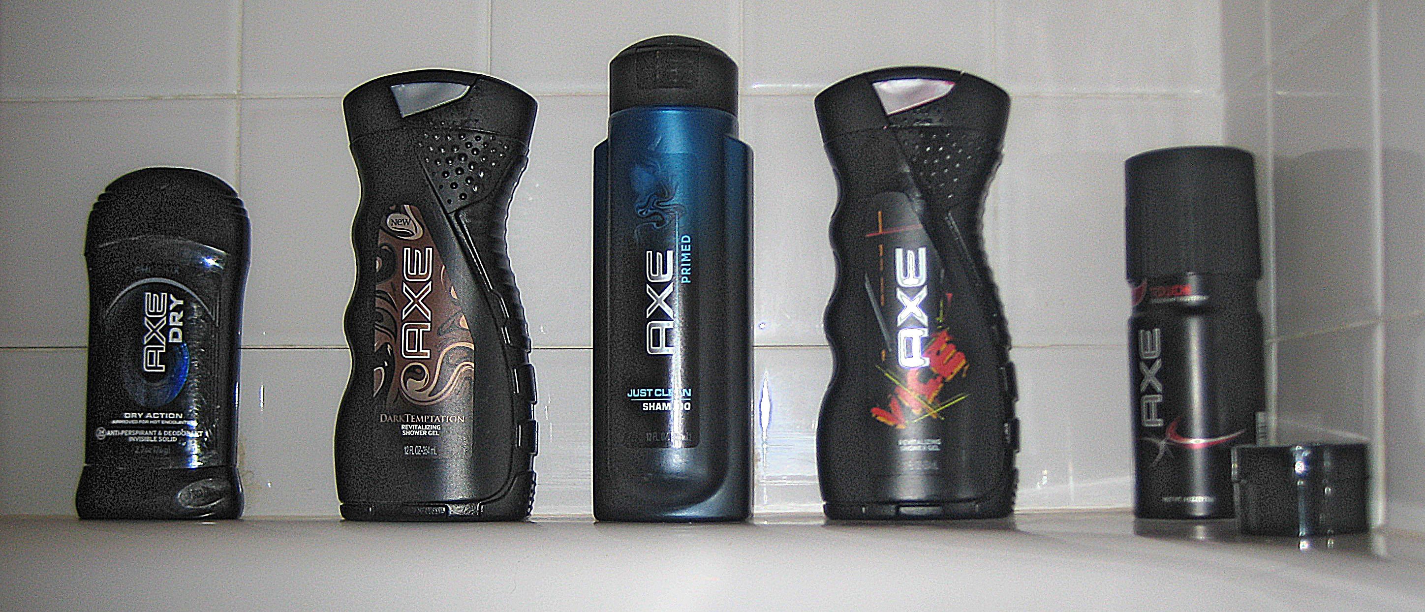 Line of AXE Shampoo, body washes, etc.